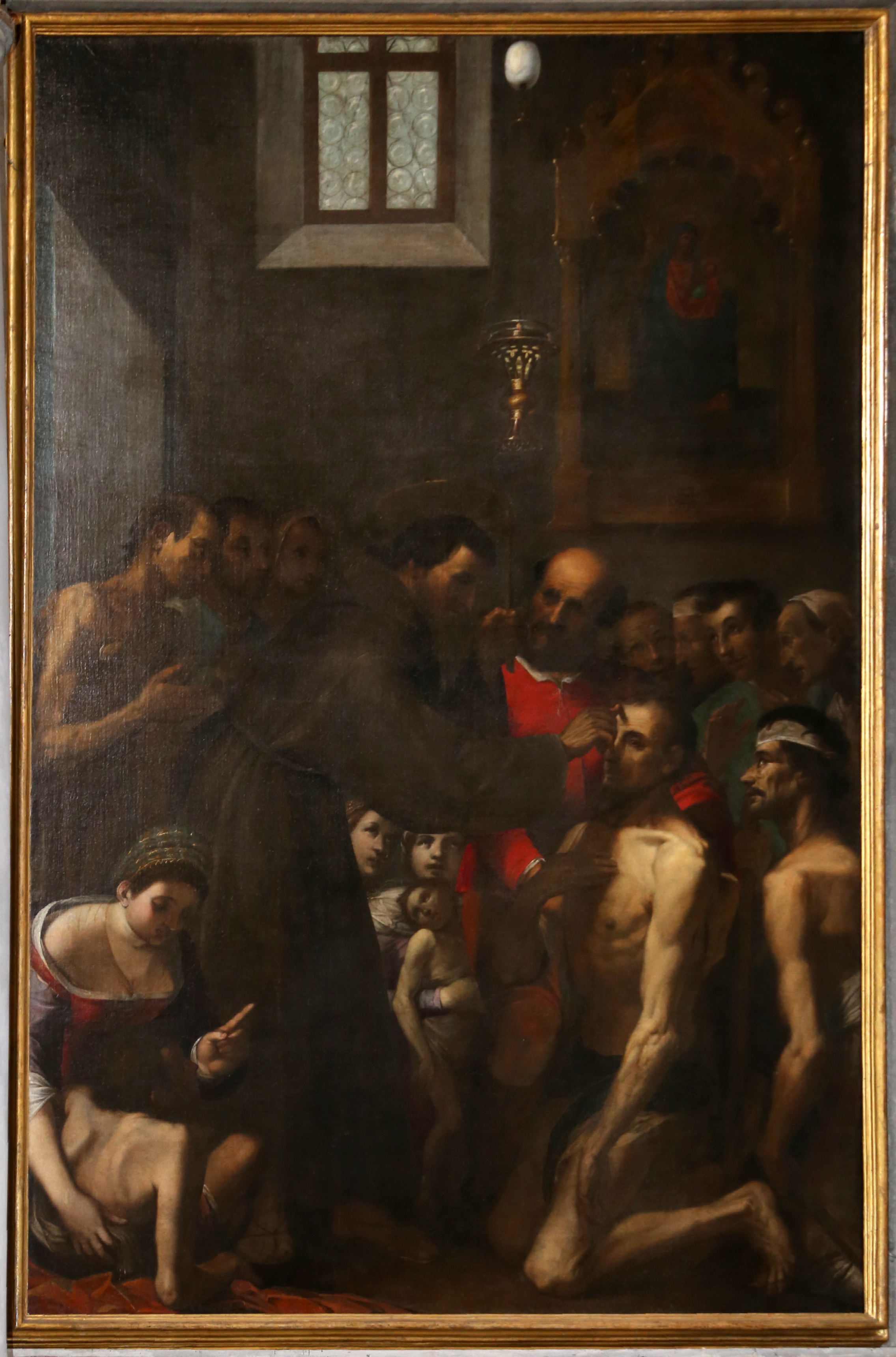 Ognissanti (Florence) - Interior